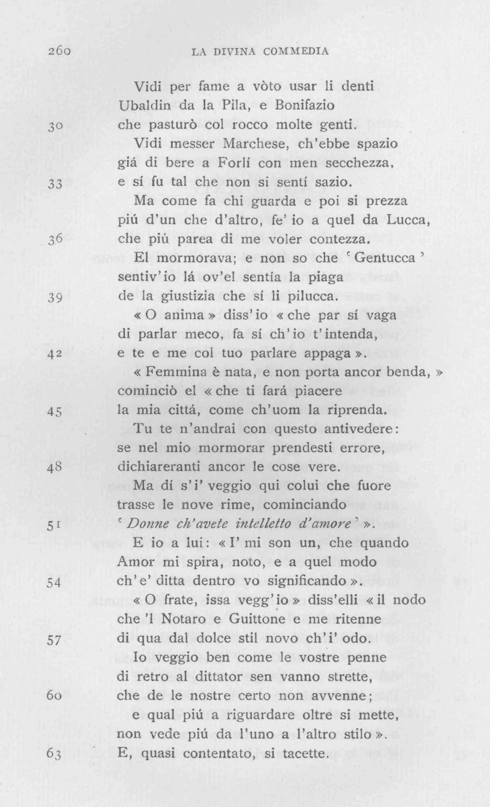 Page from "Purgatorio" of Dante Alighieri where the expression "dolce stil novo" appears for the first time.